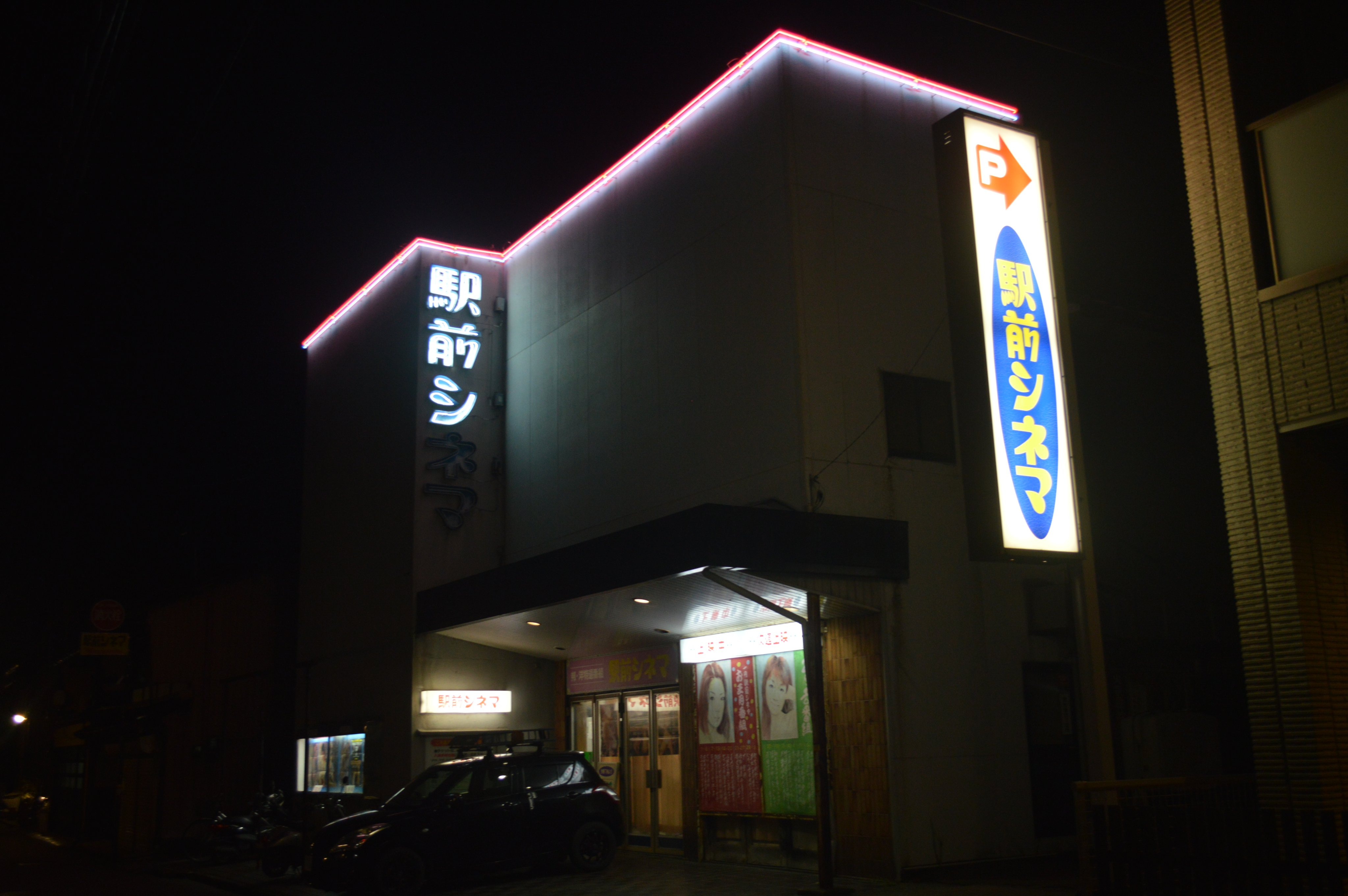 Adult movie theater "Ekimae Cinema" (Kanazawa Ekimae Cinema) in Kanazawa city, Ishikawa prefecture, Japan.